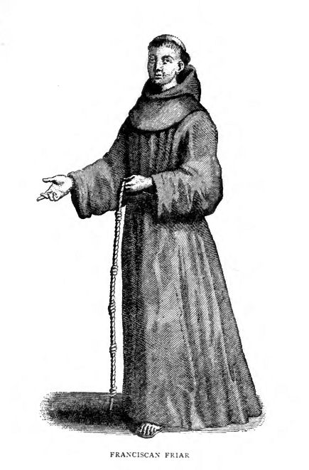 Published in London